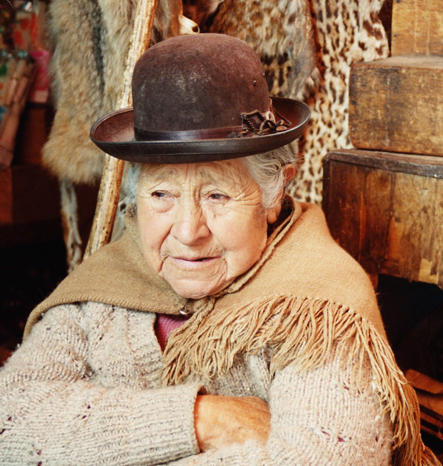 A seller of the offerings in La Paz, Bolivia.